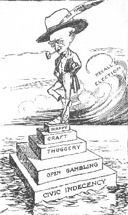 Caricature by "Hop" of Seattle mayor Hiram Gill (captioned "Where Gill Proudly Stands") Seattle Post-Intelligencer "Wappy" is Gill's famously corrupt Chief of Police Charles "Wappy" Wappenstein.